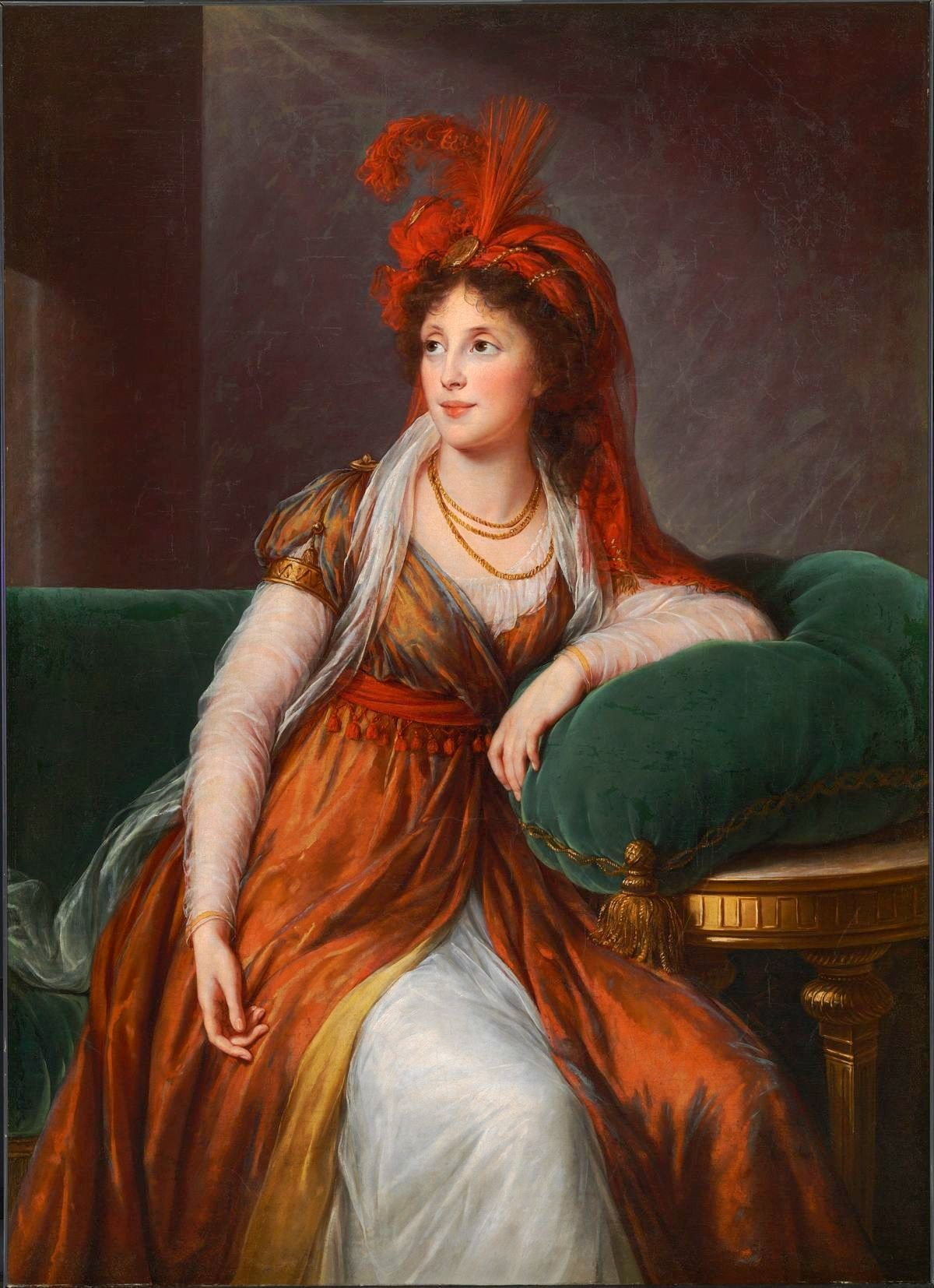 Anna Alexandrovna Galitzin, Princess Royal of Georgia. Great-granddaughter of Georgian monarch Vakhtang